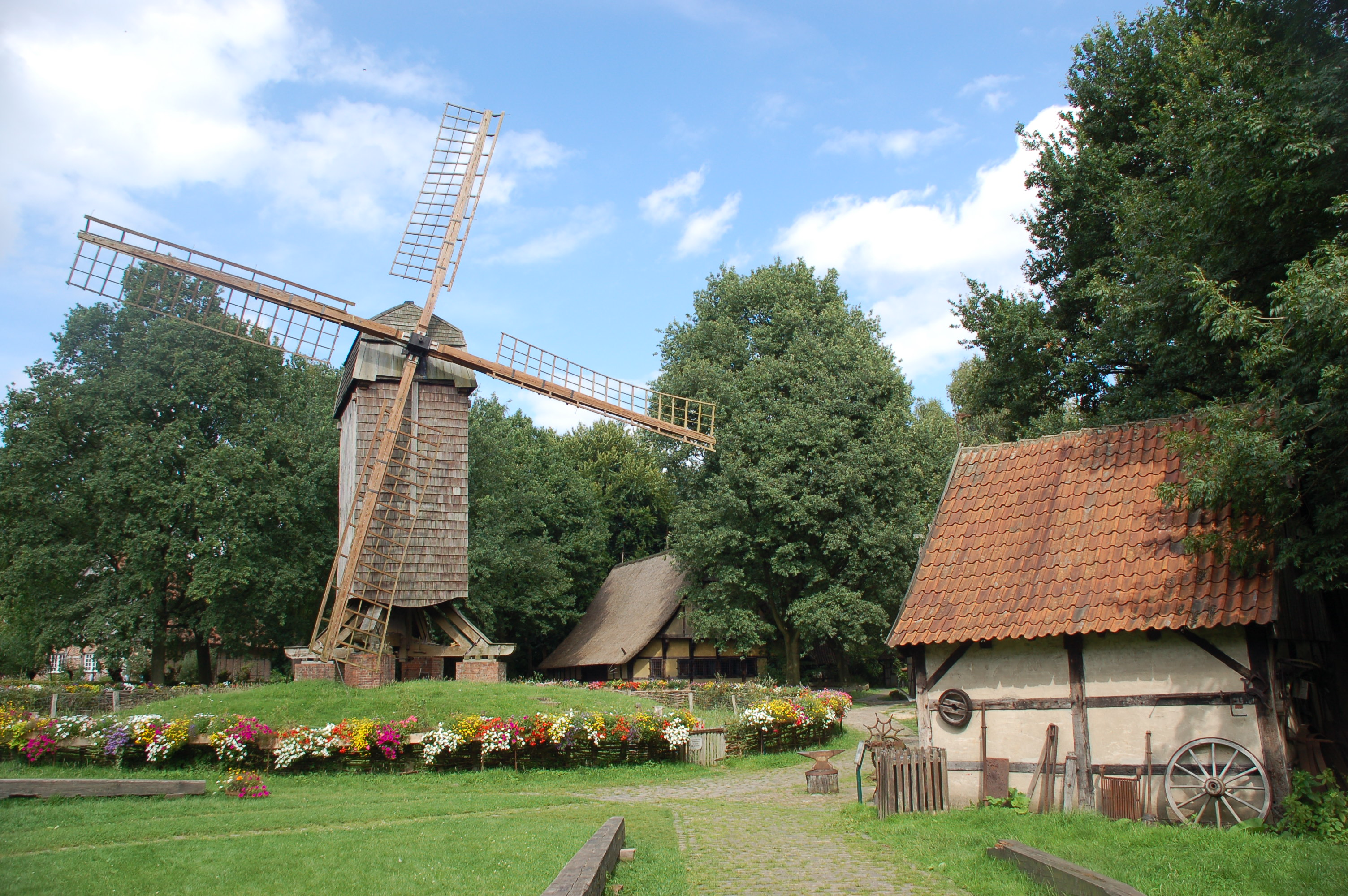 Windmill